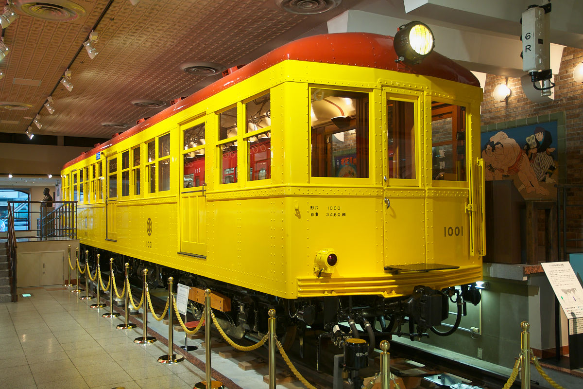 Tokyo Subway 1000 series car 1001 at the Tokyo Metro Museum